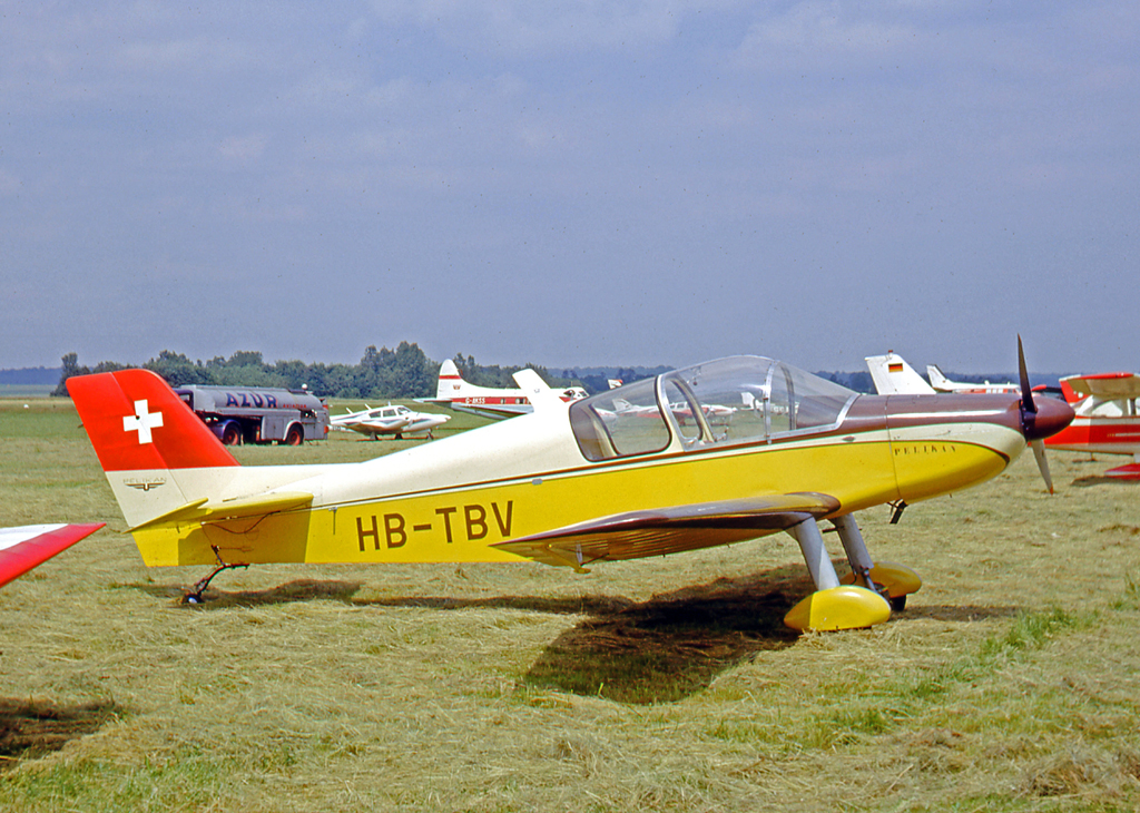 Uetz U3M Pelikan HB-TBV at Toussus, France, in 1965